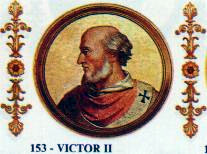 Portrait of Pope Victor II in the Basilicaof Saint Paul Outside the Walls, Rome